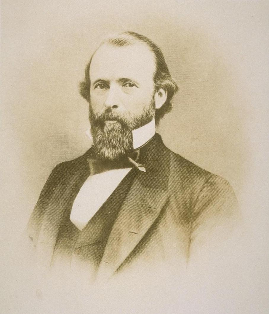 John G. Downey (1827-1894), 7th Governor of California